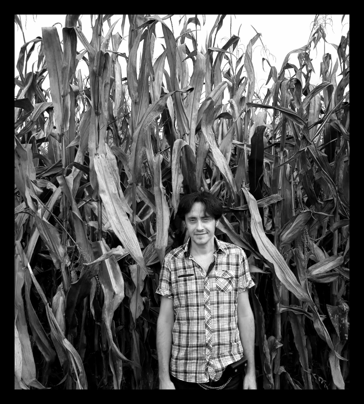 Pasquale Russo Maresca - Photo shot in a camp of corn, Mexico, September 2010